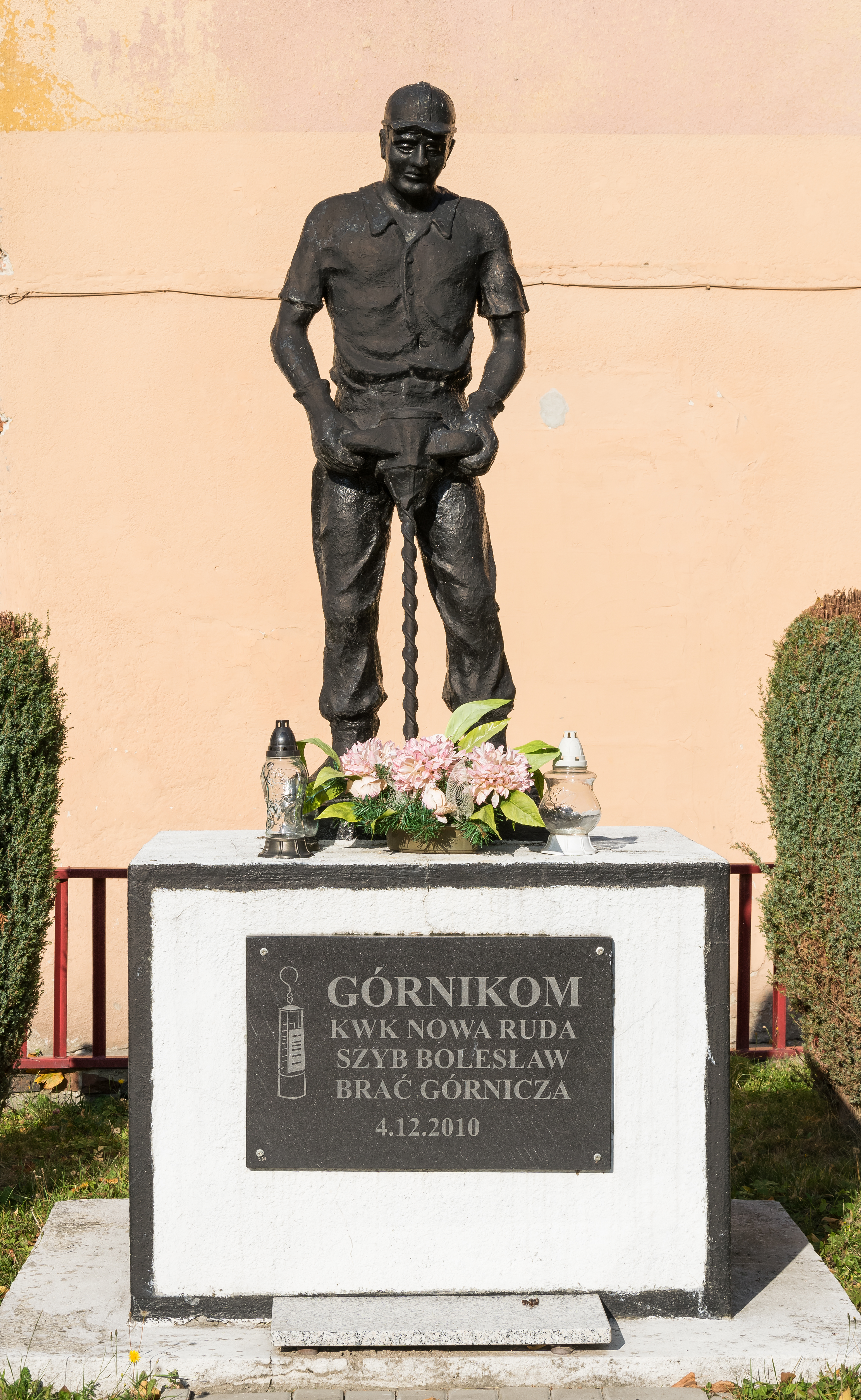 Statue of miner in Przygórze